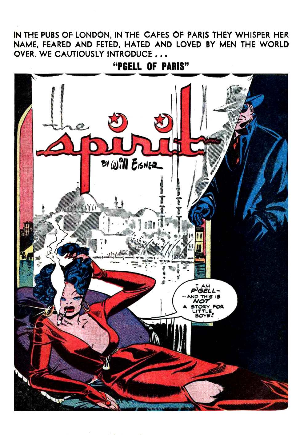 "I am P'Gell...and this is not a story for little boys." The Spirit's adventures were reprinted by Quality on a quarterly (later bi-monthly) basis between 1944 and 1950. First appearing in October 1946, P'Gell became a recurring character and a major contender for Denny Colt's affections. From: The Spirit number 21, June 1950.